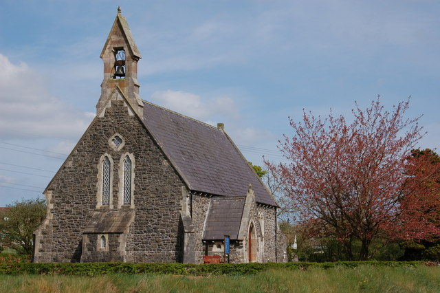 Christ Church, Ballynure Christ Church (CoI), Ballynure was built in 1856 replacing an earlier one on the opposite side of the road.